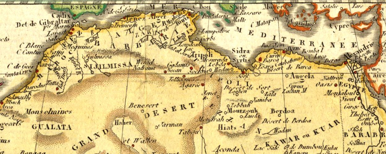 Detail of North Africa map; taken from existing Wikipedia file